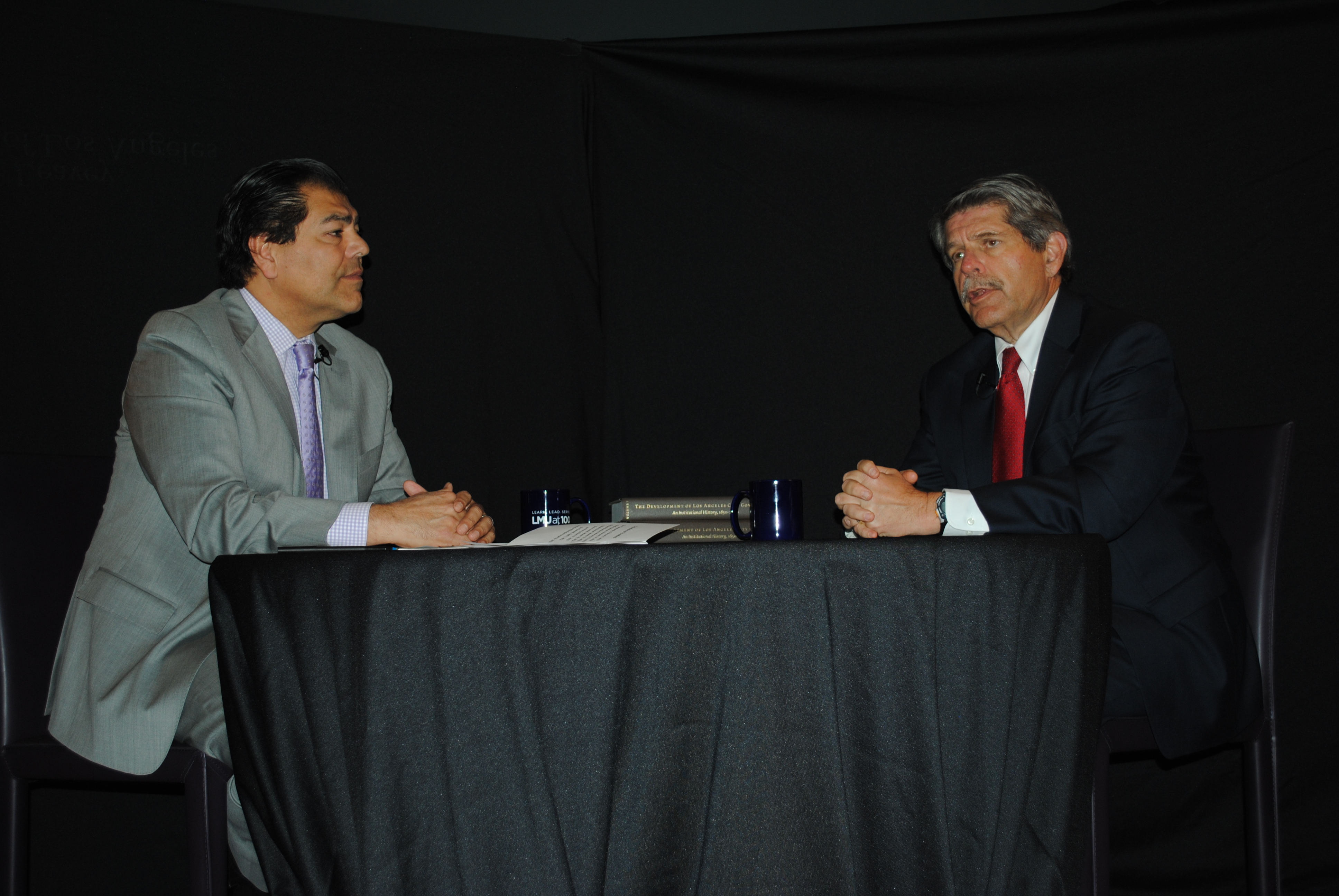 This file contains the image of Dr. Fernando Guerra interviewing panelist and L.A. County Supervisor Zev Yaroslavsky during the 2012 Urban Lecture Series.